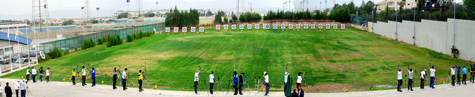 Panoramic photograph of archers shooting at the Cyprus Archery Federation (CAF)grounds in Nicosia.